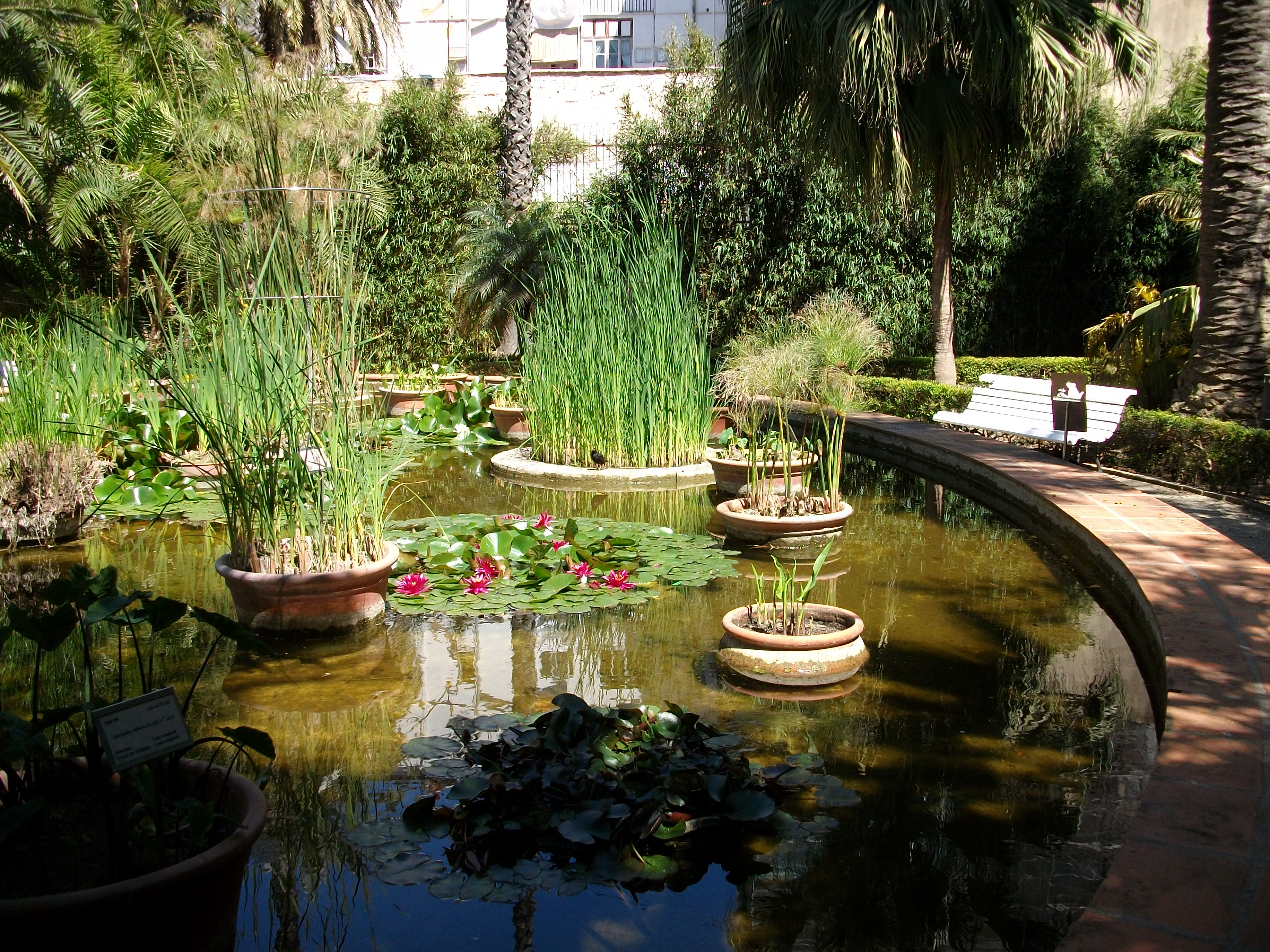 Botanical garden of València.